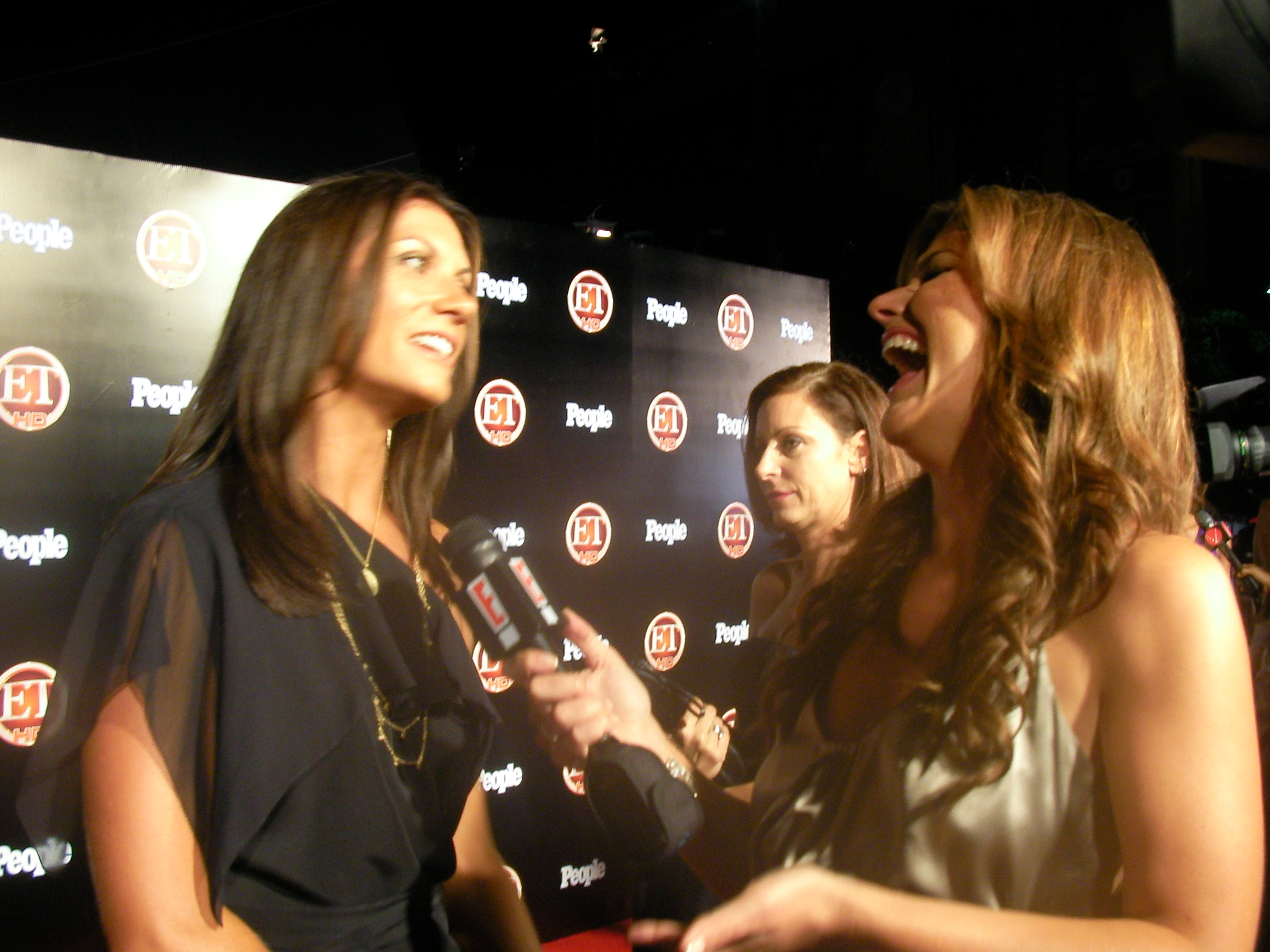 Misty May-Treanor (left) with Kristin dos Santos